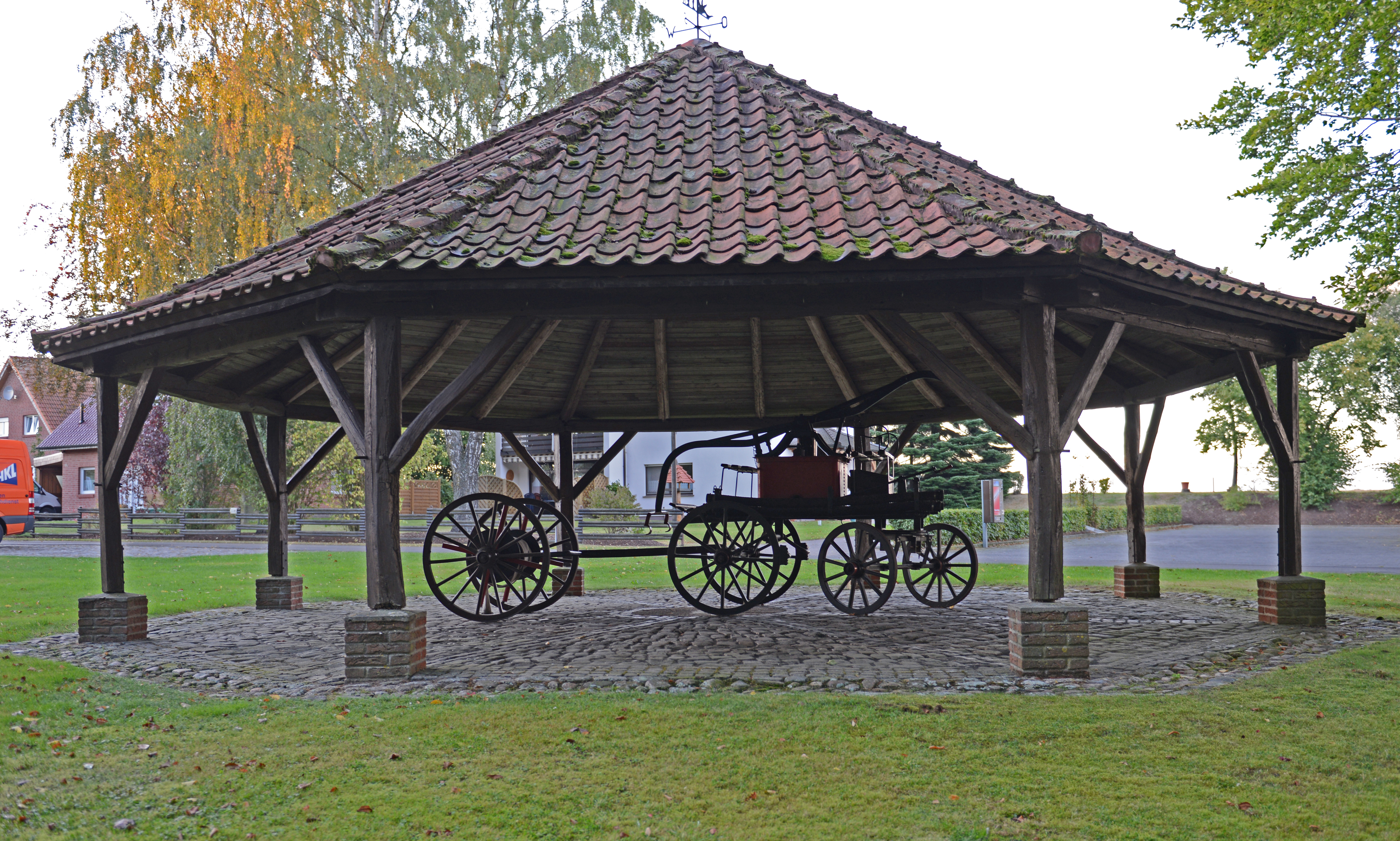 Fire Brigade Heiligenloh